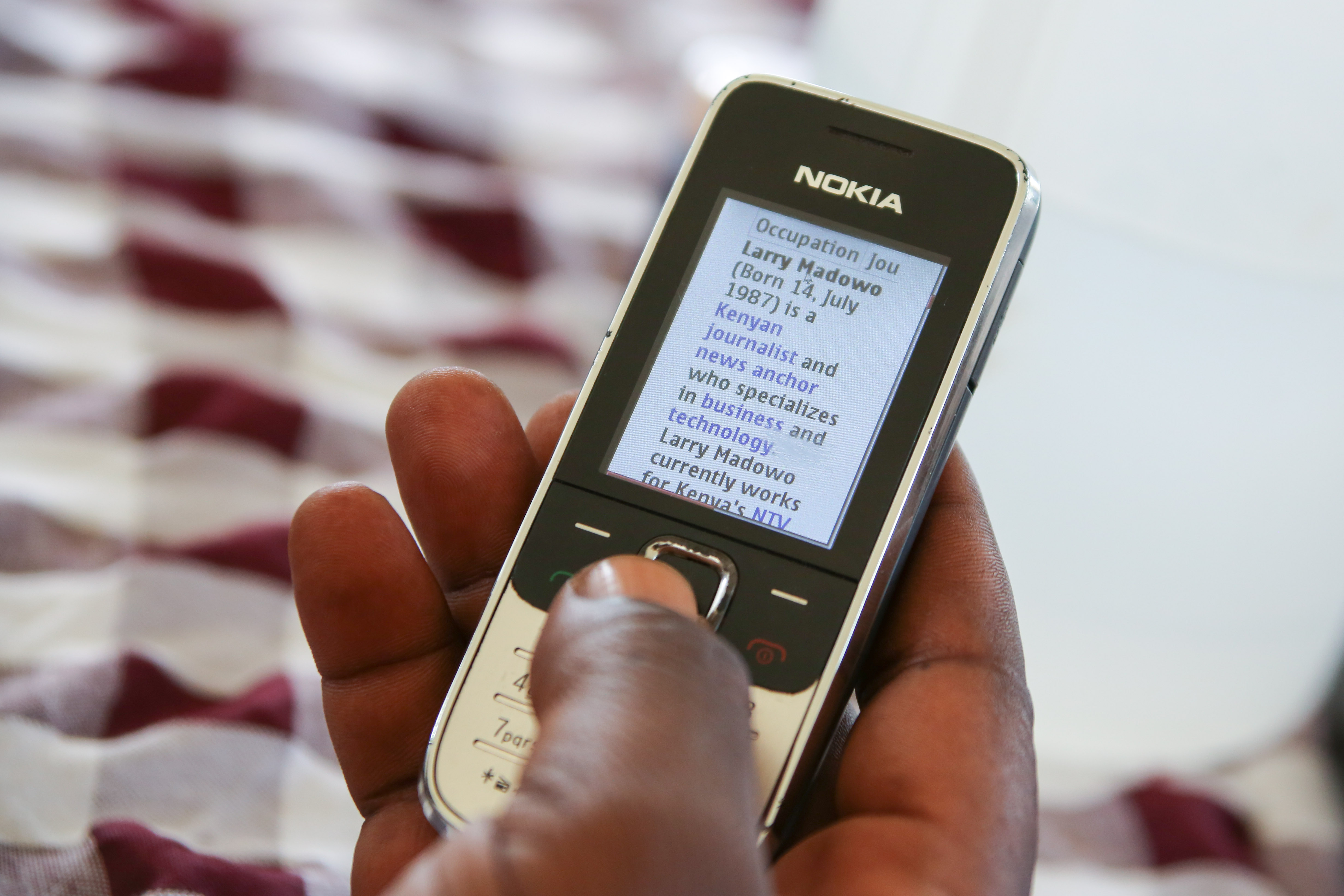 Wikipedia Mobile on a feature phone